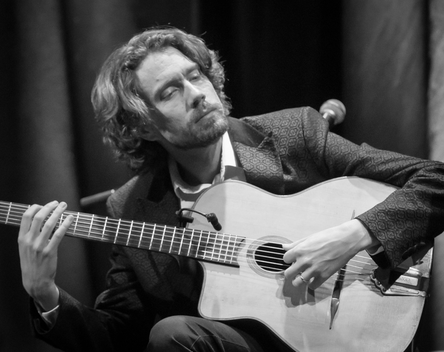 Gustav Lundgren performs with Acoustic Connection at Cosmopolite. The concert was part of Djangofestivalen 2017 and took place on 20. January 2017 in Oslo. Acoustic Connection is a collaboration project between Gustav Lundgren Trio and Antoine Boyer.Lineup:Gustav Lundgren (guitar)Andreas Unge (double bass)Martin Widlund (guitar)Antoine Boyer (guitar)